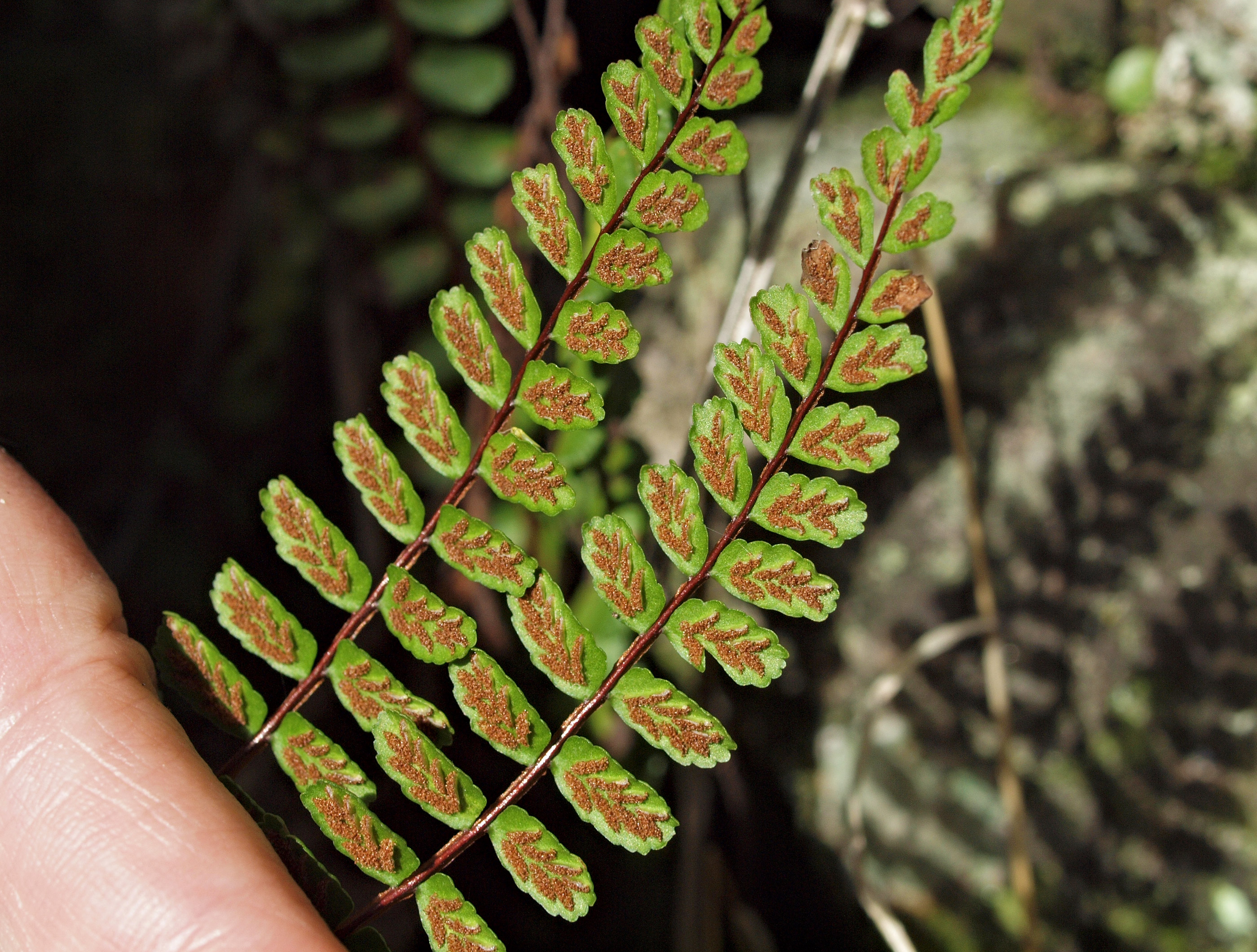 Sori with visible indusia under the fronds of Asplenium trichomanes.